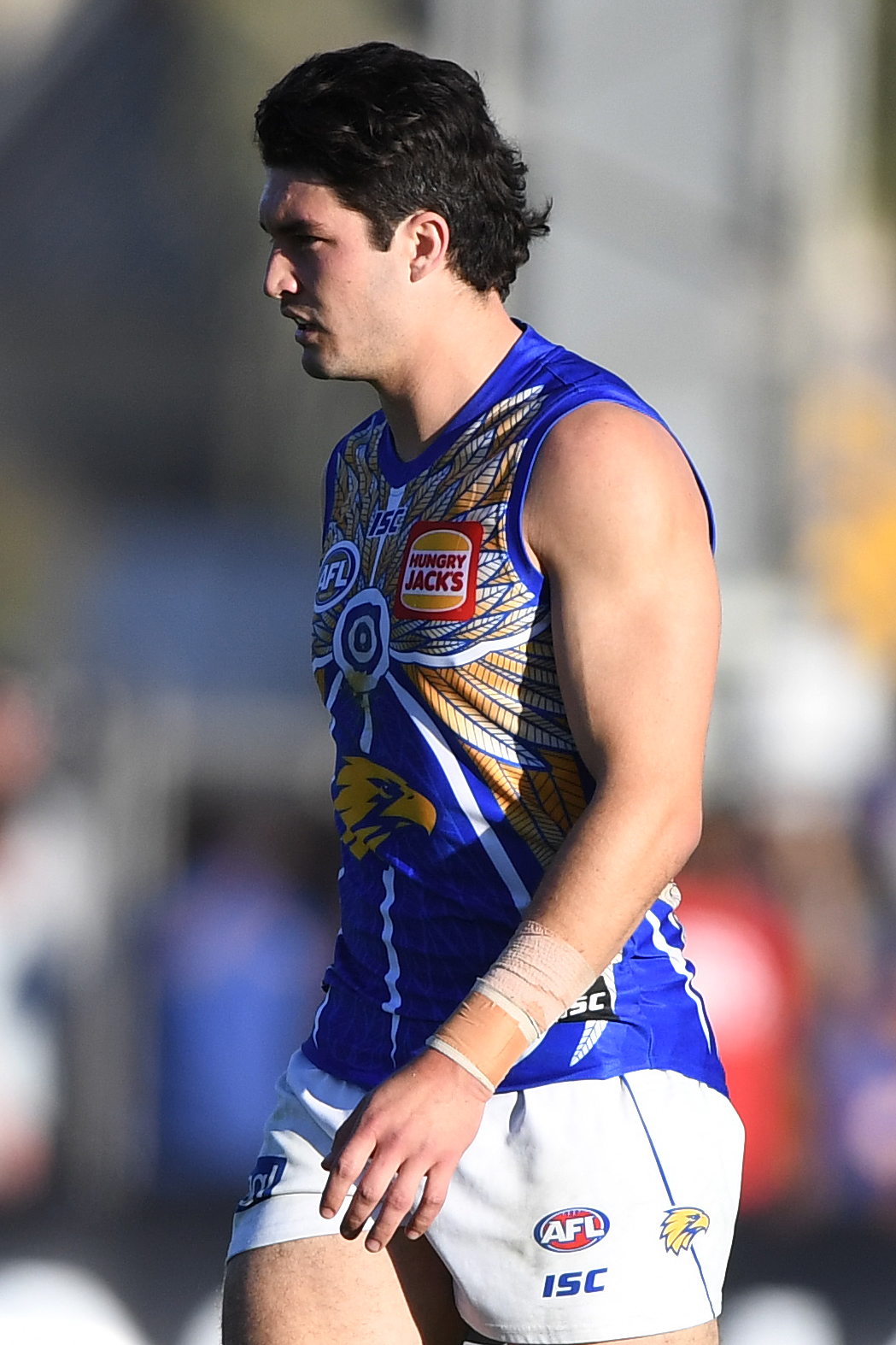 Tom Barrass of West Coast during the 2019 AFL round 18 match between Melbourne and West Coast at Traeger Park on Sunday, 21 July 2019 in Alice Springs, Northern Territory.